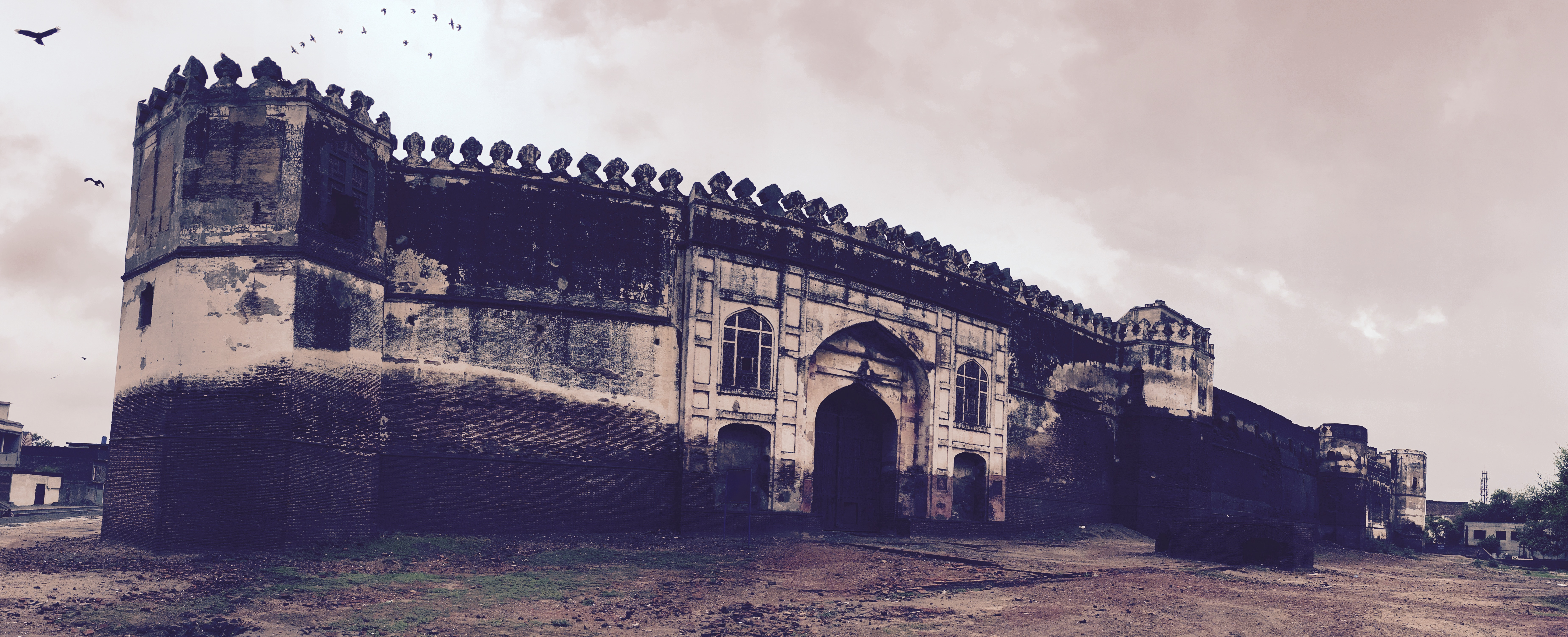 "Qila Sheikhupura by Basit Nadeem photography"